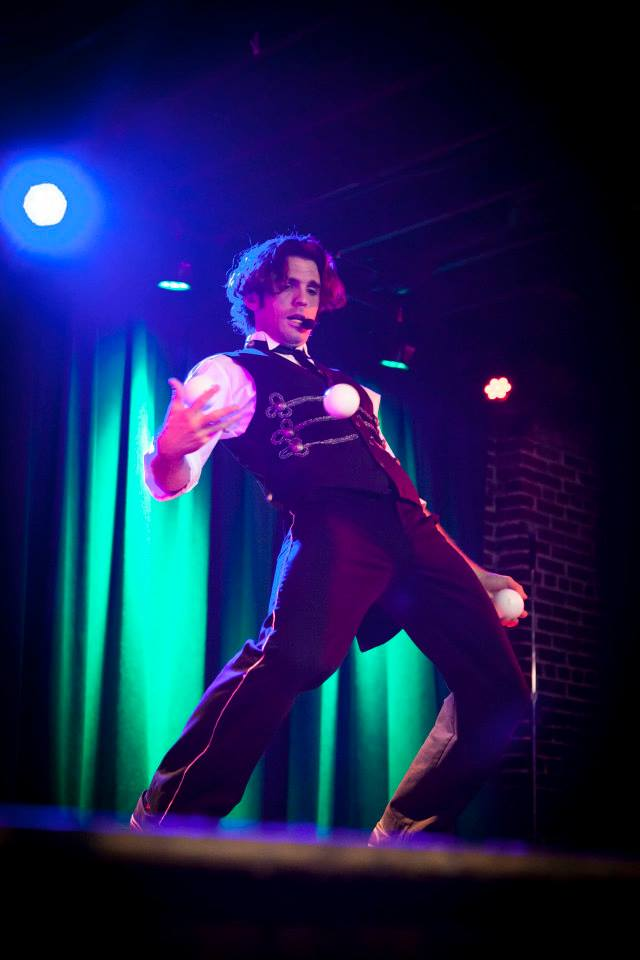 Thom Wall, a juggler based in Saint Louis, Missouri, performs in a variety show at the Duck Room at Blueberry Hill in Saint Louis, Missouri. August, 2013.